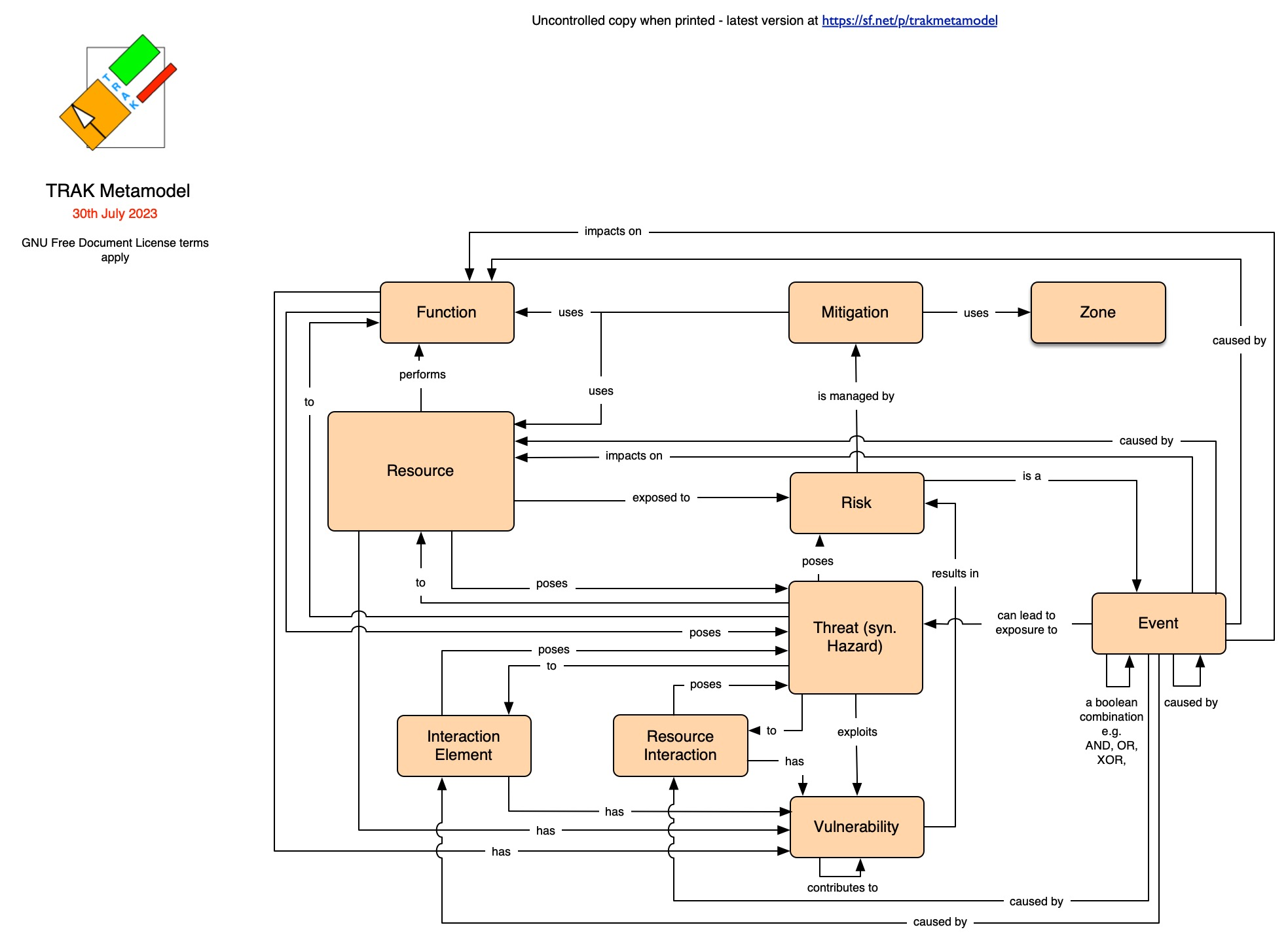 Defines the Architecture Description Elements (the triples / tuples that may appear in TRAK architecture views) that describe safety, security and risk.